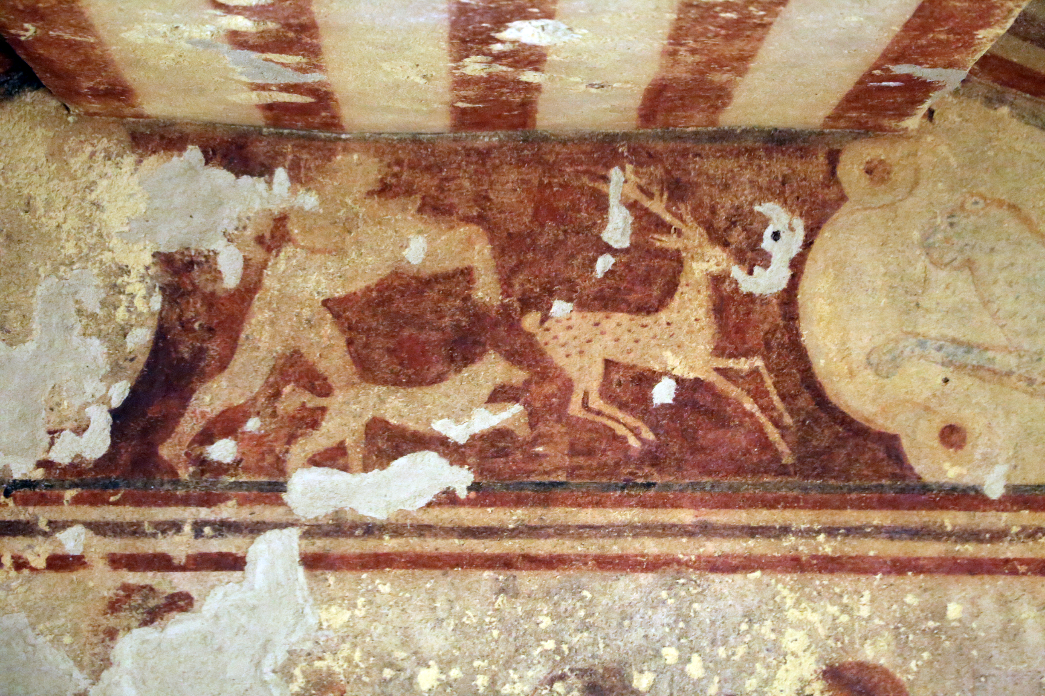 Necropoli dei Monterozzi (Tarquinia)